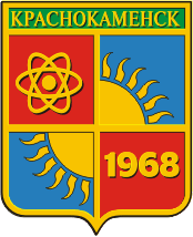 Krasnokamensk (Chita oblast), coat of arms